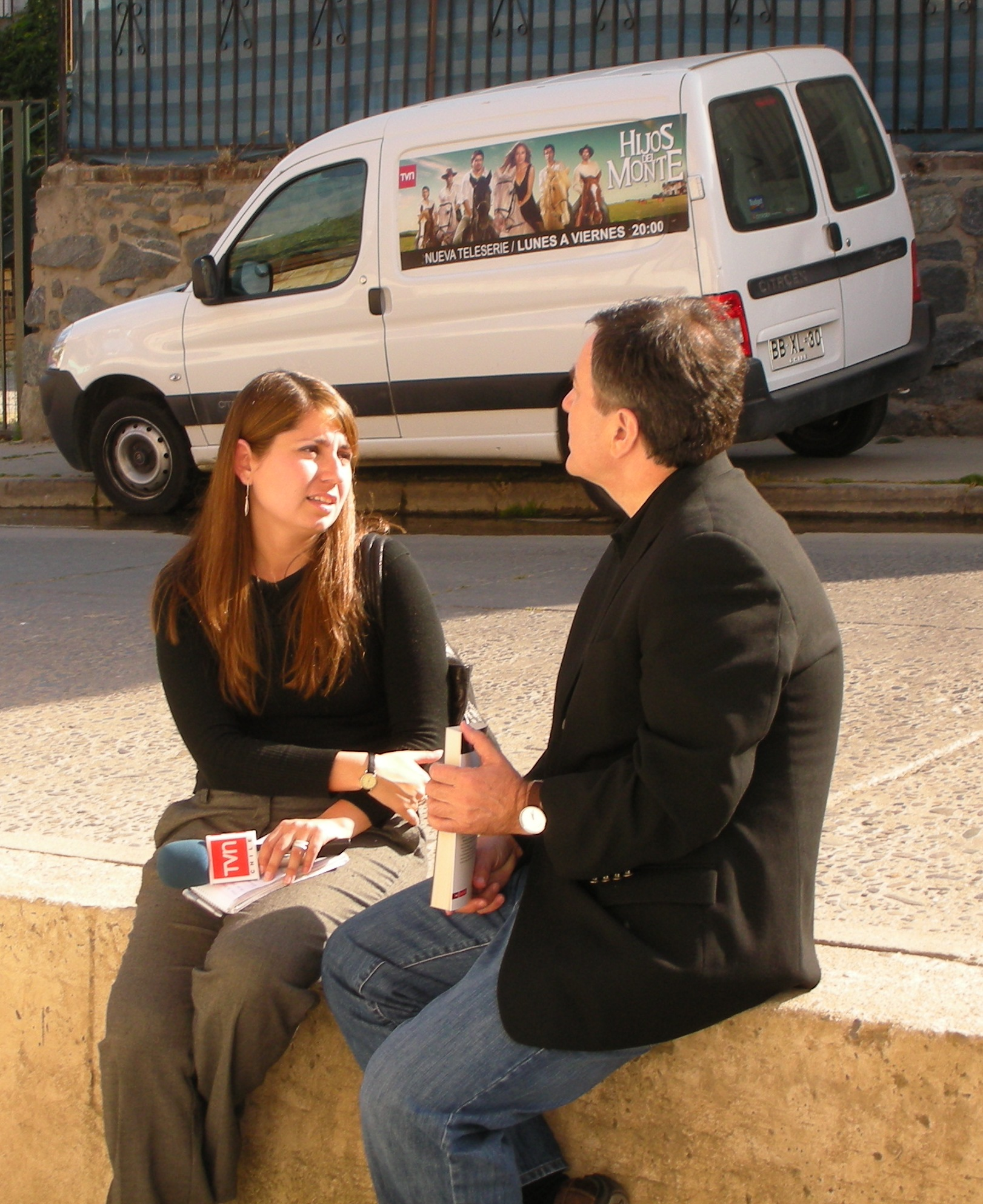 Photo taken by me after a conference in the Catholic University of Vakparaíso